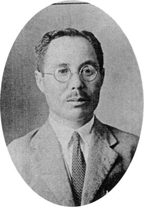 Tsunatarō Hashimoto, 16th Head of Kurate District.